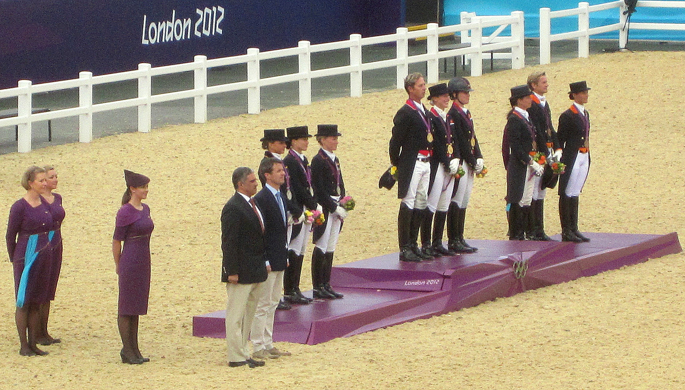 Greenwich Park, 7 August 2012 - GB winning the Team Dressage Gold Medal